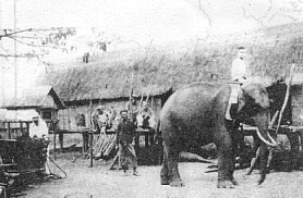 Alexandre Yersin on the Lang Biang plateau 1893.